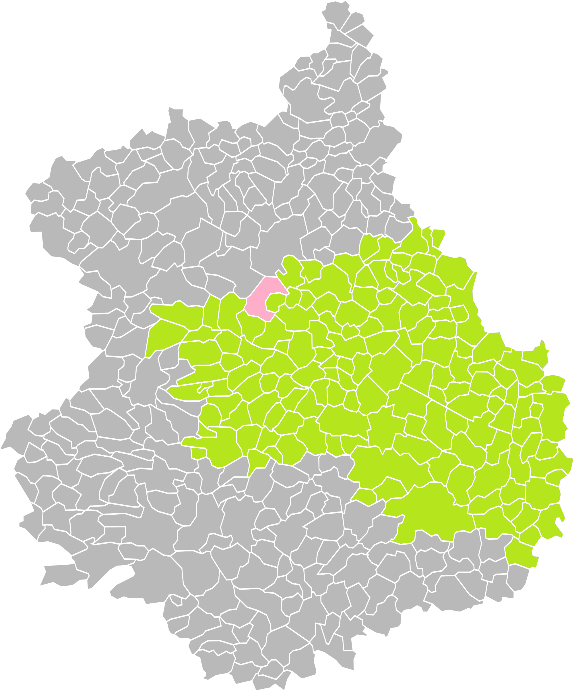 Location of the commune of Mittainvilliers-Vérigny in the arrondissement of Chartres (Eure-et-Loir)